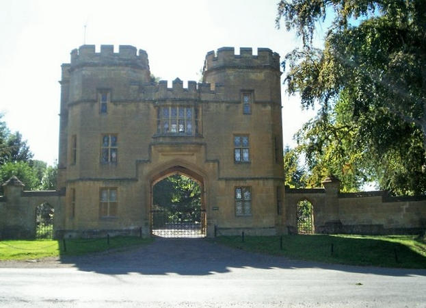 The Gatehouse of Sudeley Castle, Gloucestershire, England